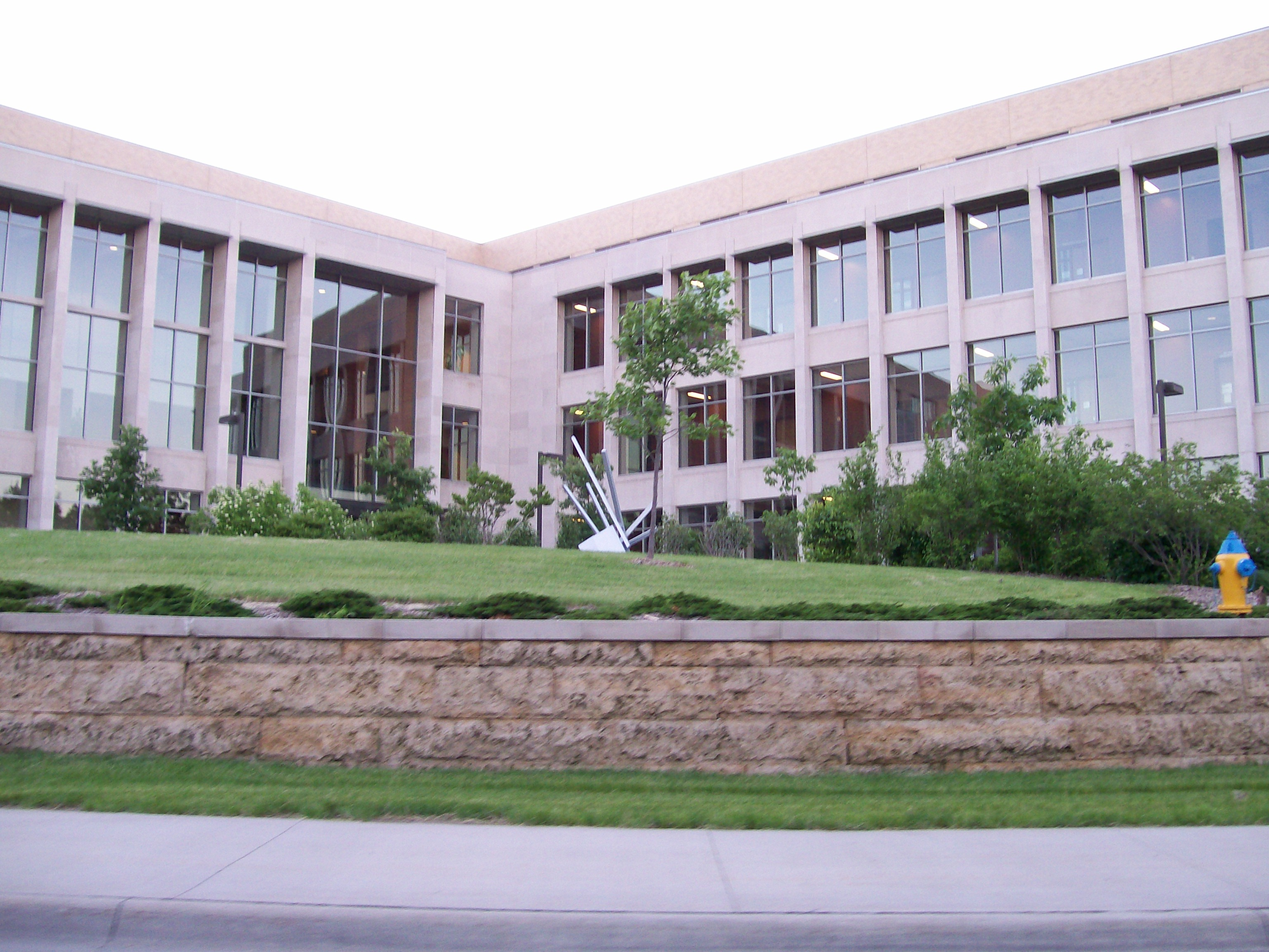 Gerdin business building